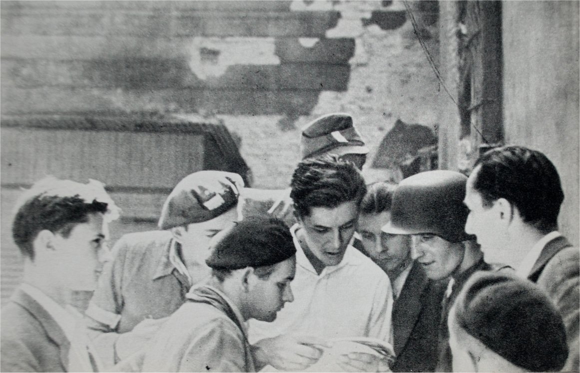 Sylwester Braun "Kris" (first on the right shown from the back) during Warsaw Uprising